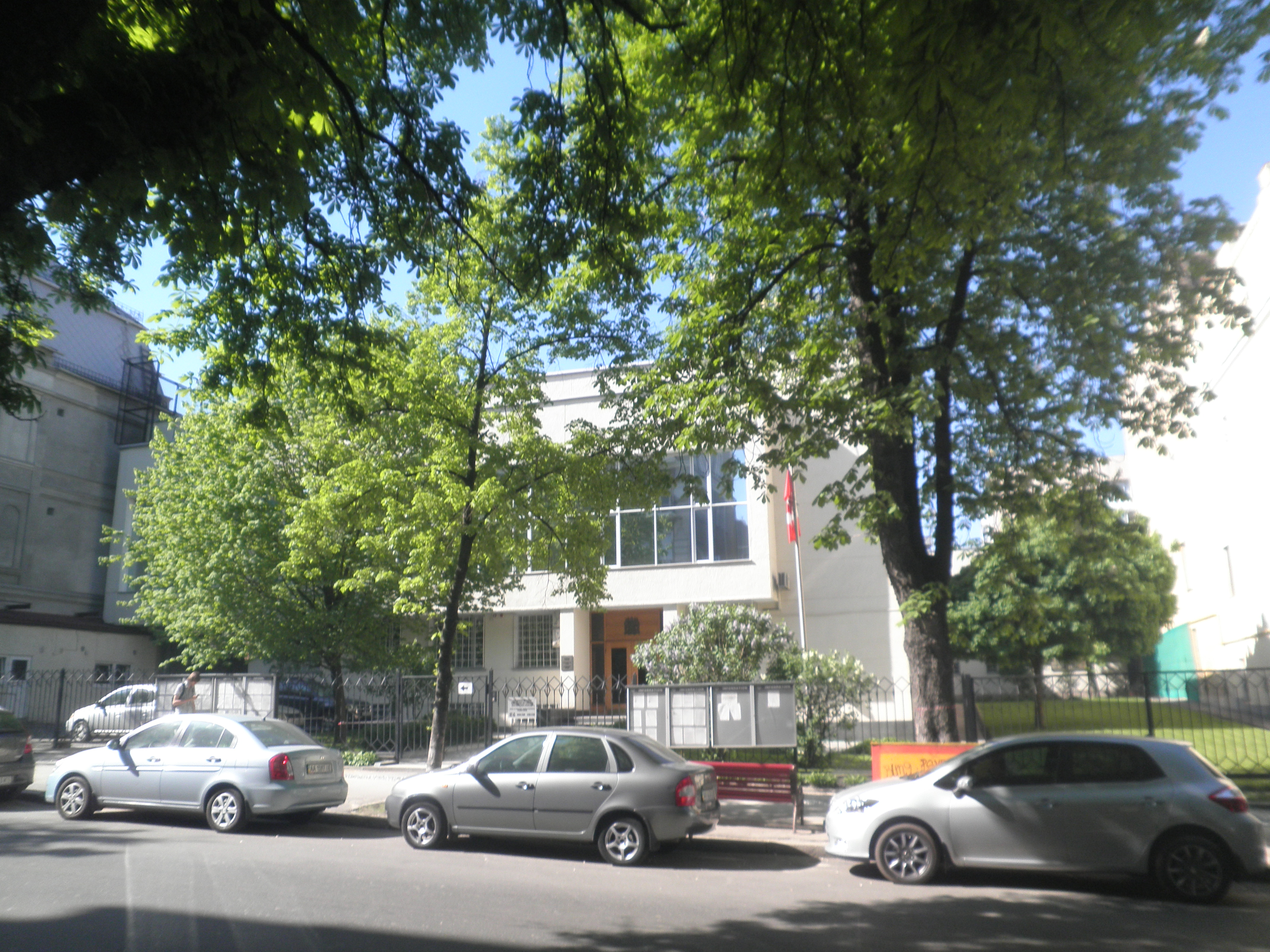 Embassy of Canada in Kyiv.jpg